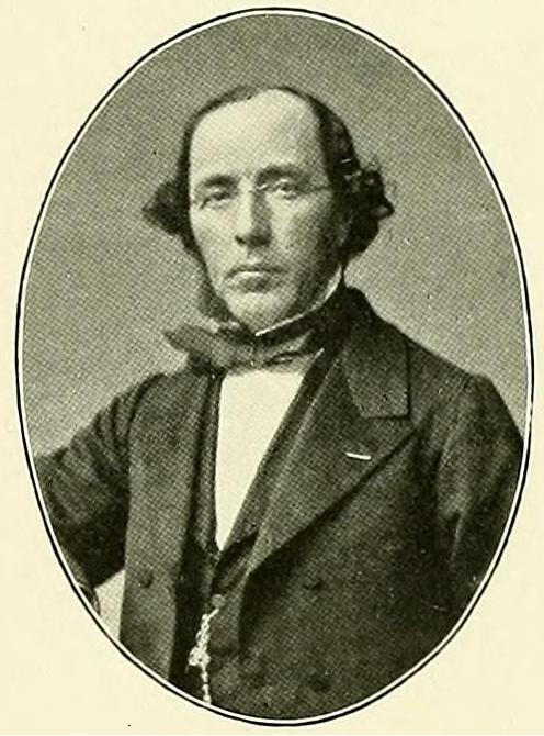 Portrait of the French botanist and physician Gaspard Adolphe Chatin